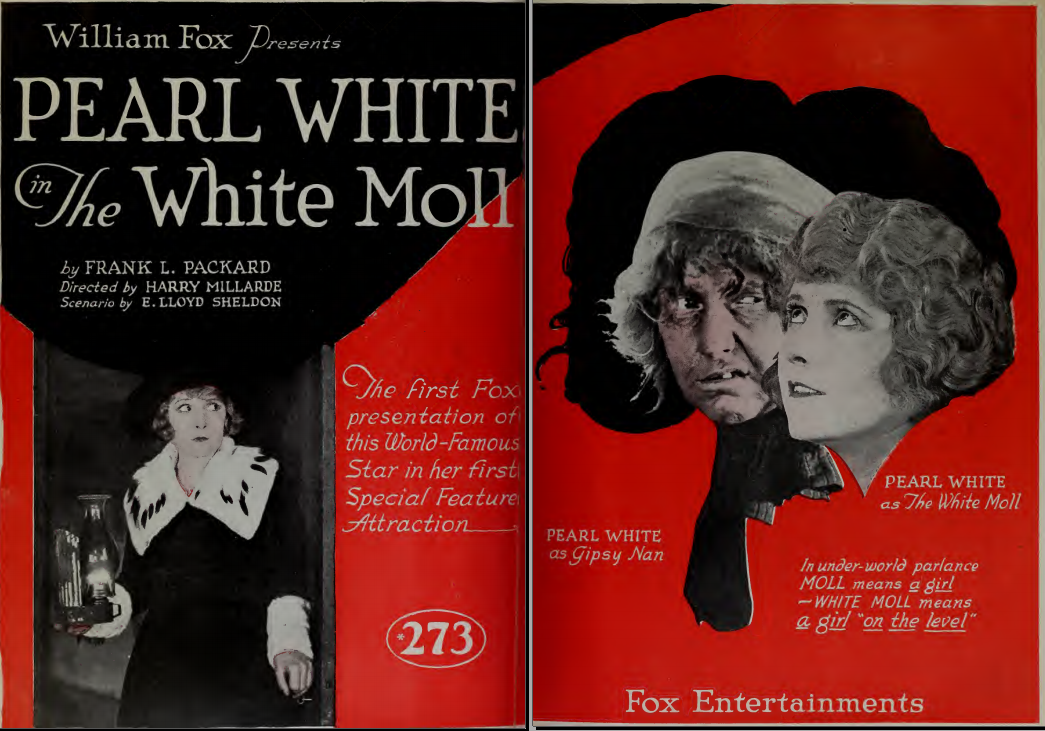 Advertisement with Pearl White in the film The White Moll (1920) directed by Harry Millarde.